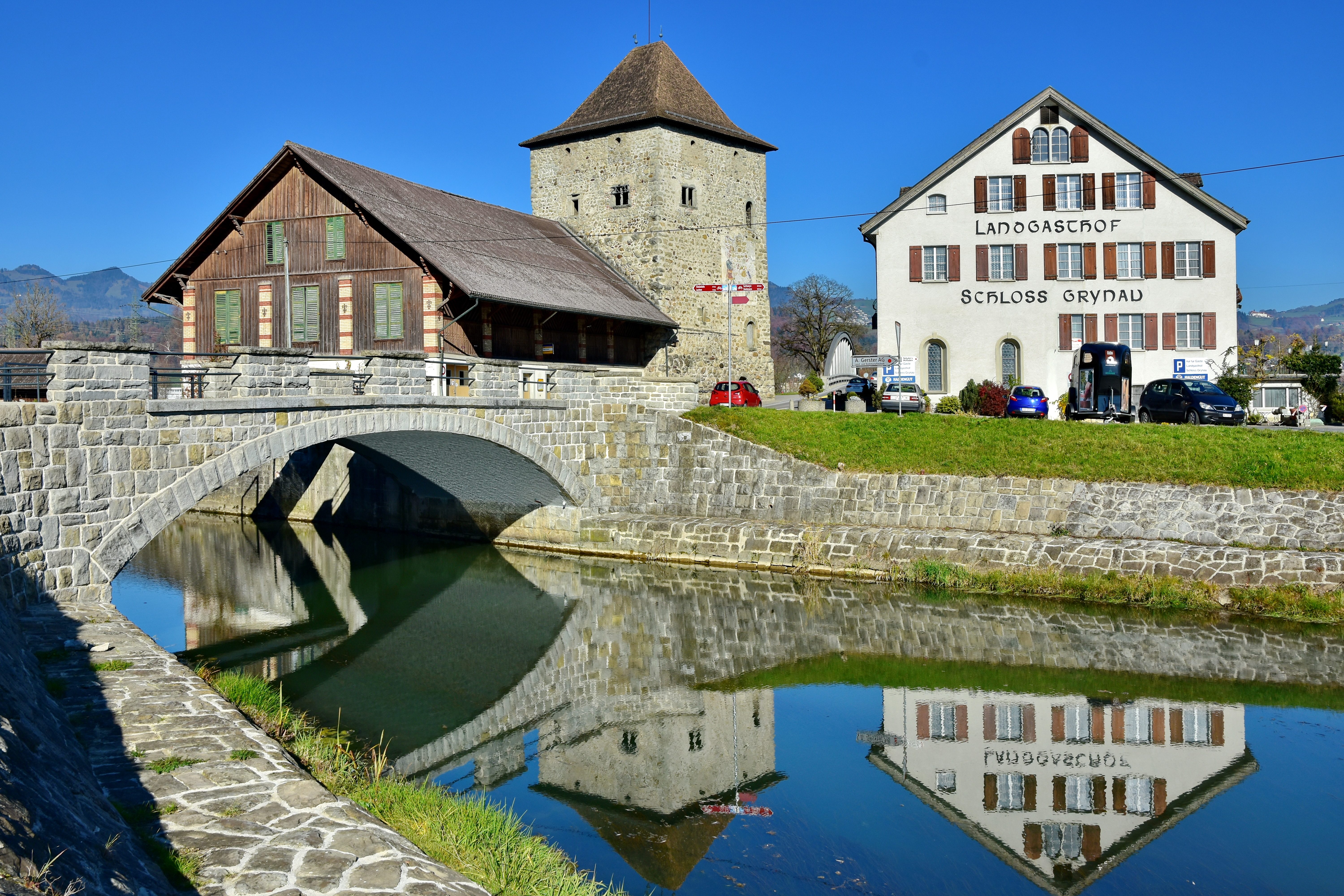 Grynau (Grinau or Schloss Grynau) is a castle tower, situated on the Linth canal in the Swiss municipality of Tuggen in the Canton of Schwyz, that was built by the House of Rapperswil in the early 13th century AD.